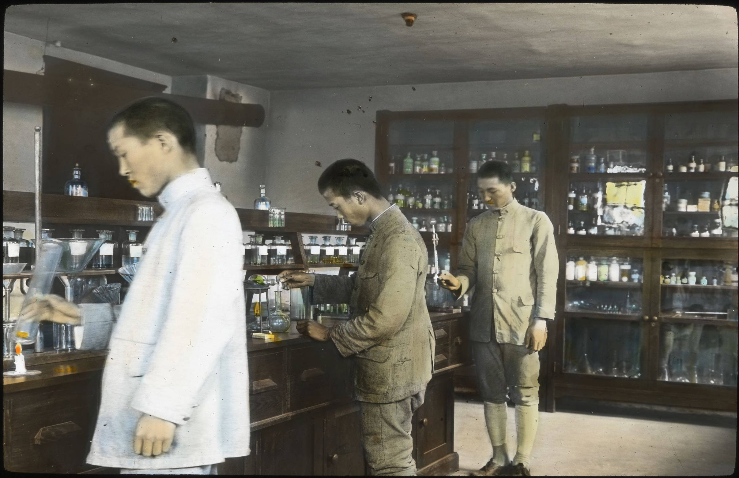 Pai Chai, chemical laboratory, [s.d.] Pai Chai, chemical laboratory, [s.d.] Date created: 1908/1922 Publisher (of the Digital Version): University of Southern California. Libraries Repository Name: Methodist Church (U.S.) Legacy Record ID: kda-m17 Photographer: Methodist Episcopal Church Format: photograph Archival file: kda_Volume42/Taylor_paichai12.jpg Rights: "Neither the General Conference nor any General Agency of The United Methodist Church (successor to the Methodist Episcopal Church) claims any interest in the photos or images." Part of subcollection: The Reverend Corwin & Nellie Taylor Collection Coverage date: 1908/1922 Contributing entity: University of Southern California Repository Address: Nashville, Tennessee Part of collection: Korean Digital Archive Donor: Taylor, Ewing Bevard Filename: Taylor_paichai12 Type: images Geographic Subject (City or Populated Place): Seo-gu Geographic Subject (Country): Korea Compiler: Taylor, Corwin; Blood-Taylor, Nellie